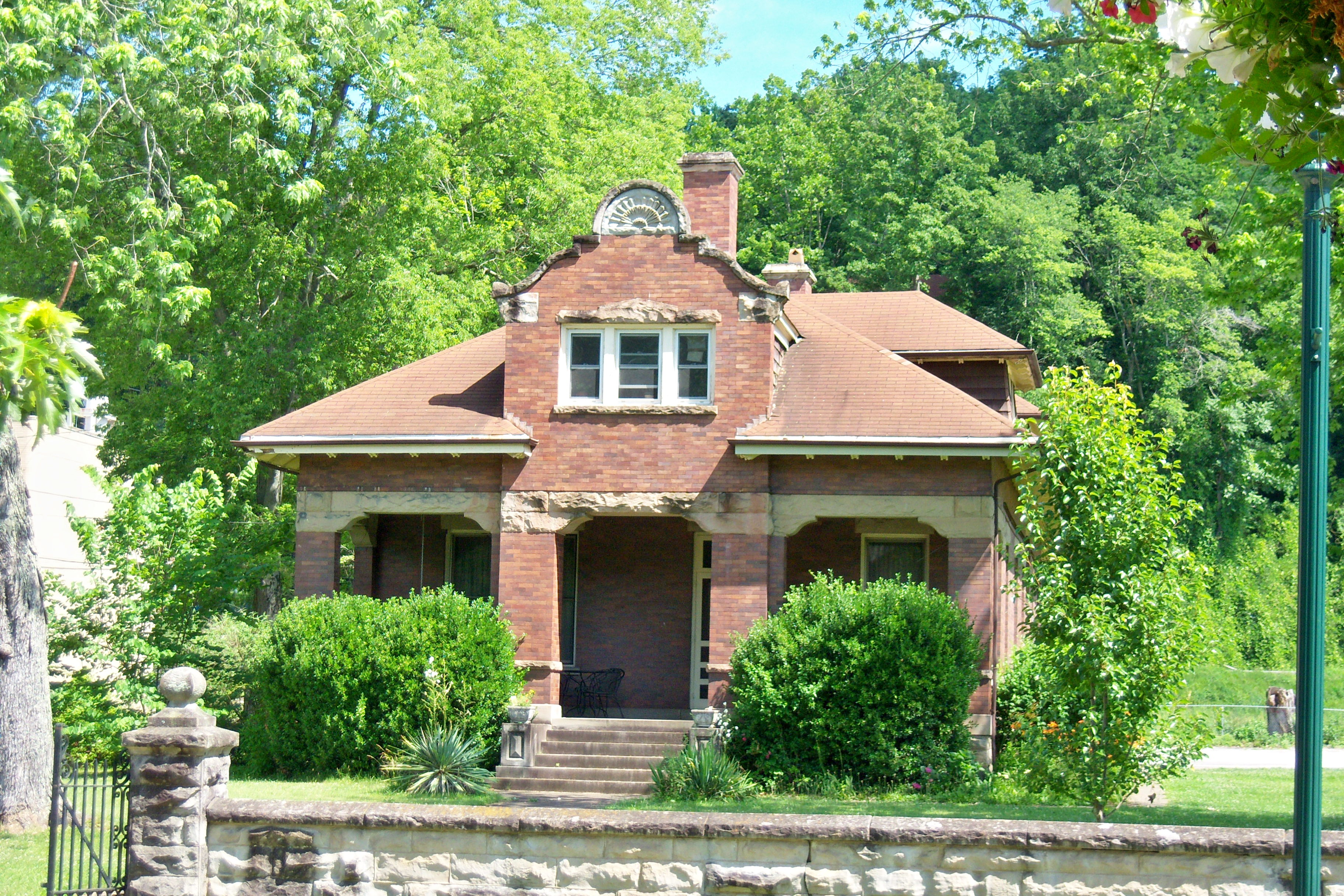 Office of John C.C. Mayo, located adjacent to Mayo Mansion.